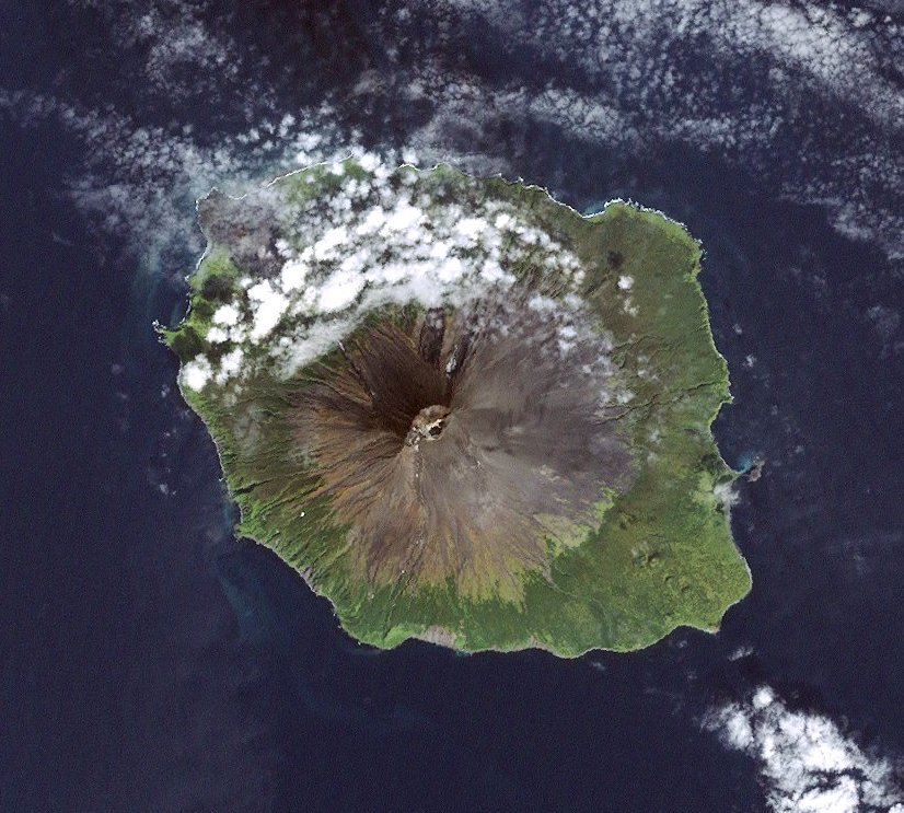 Landsat 7 image of the Kuril Island of Atlasov, 28.5 meter resolution. Based on Global Orthorectified Landsat dataset (ETM+); WRS_PATH 100, WRS_ROW 025. Generated using "true-color" combination of bands 3, 2, & 1 as R, G, B respectively. Color curves enhanced in the Gimp.